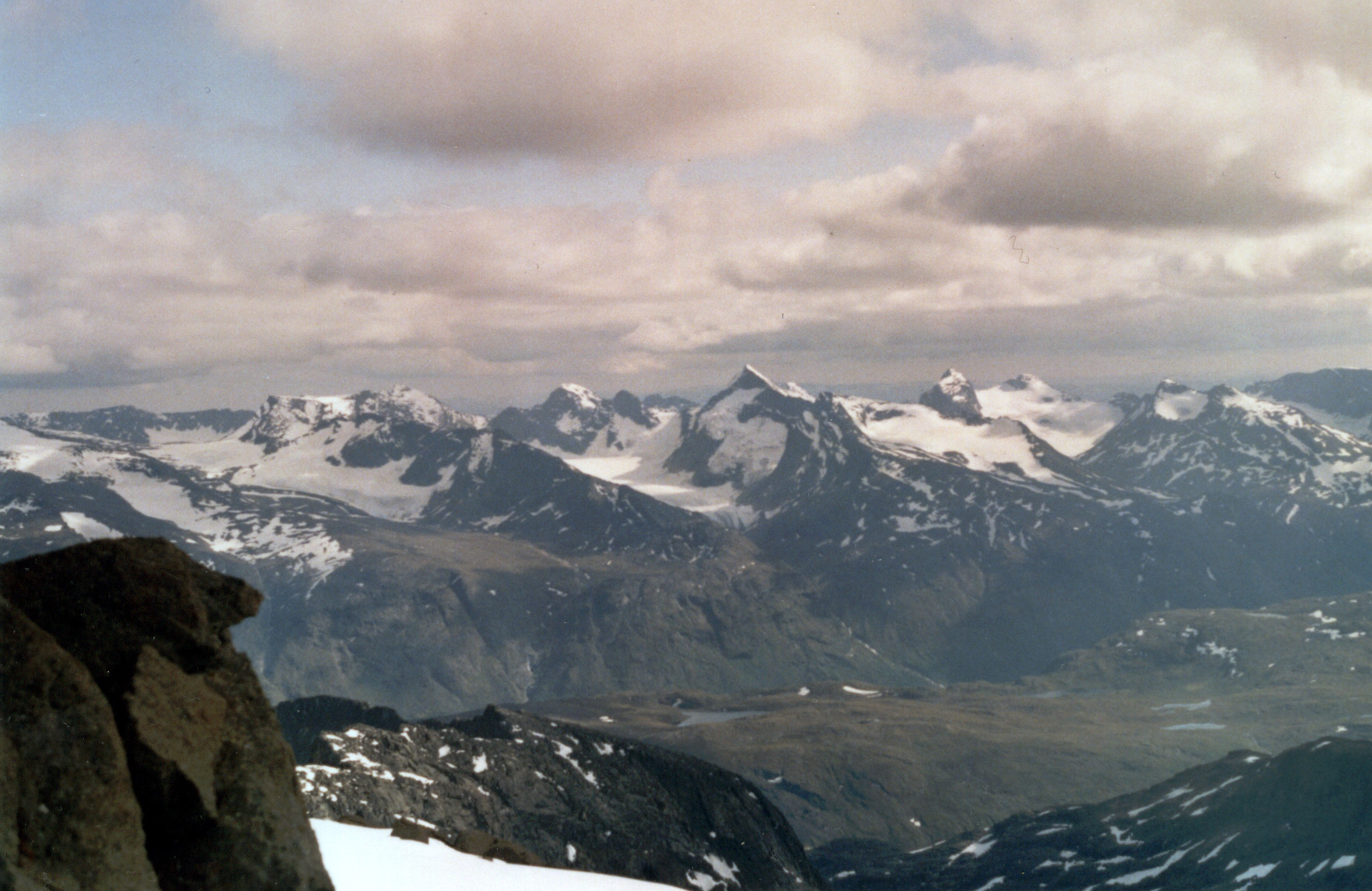 From the top osf Surtningssua looking south